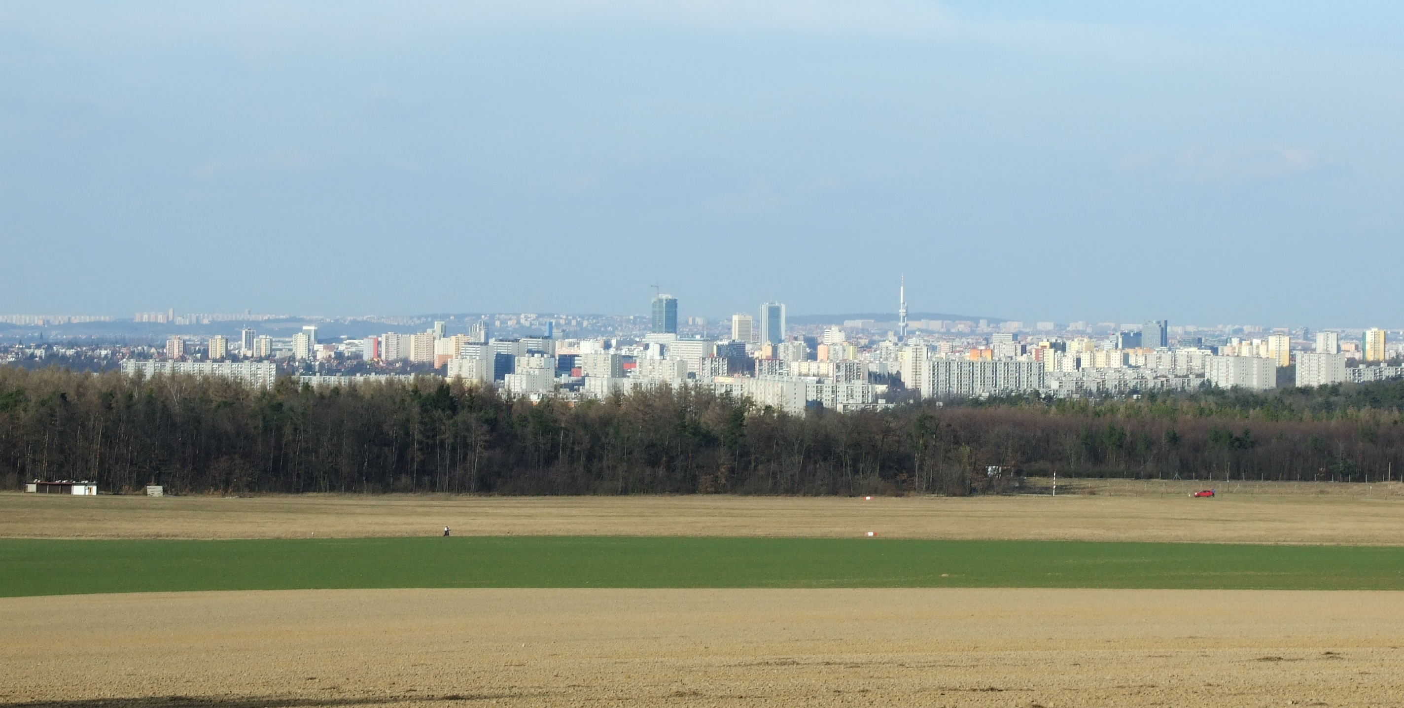 Lookout on Modřany from Cholupice Area, Prague